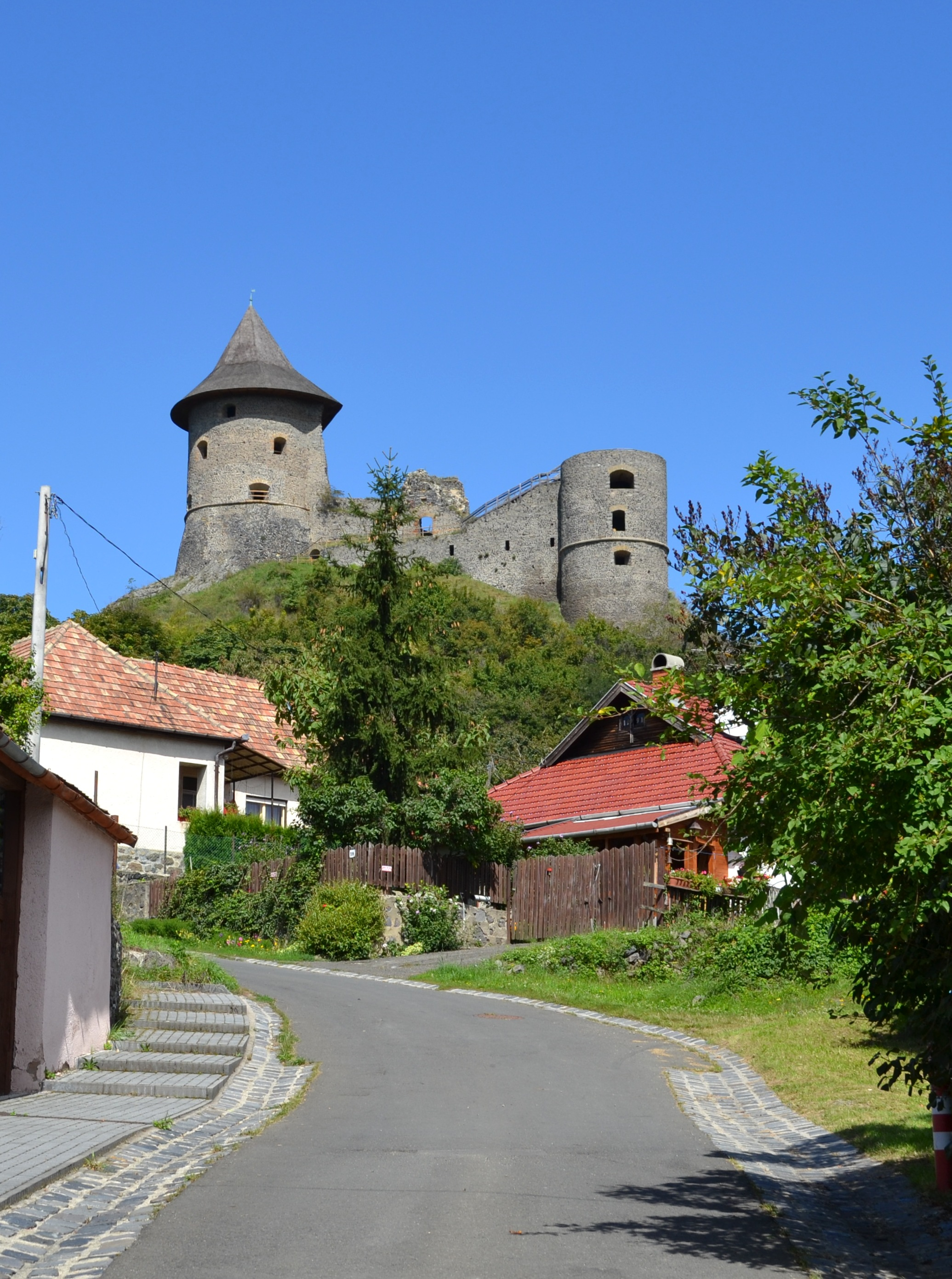 The Šomoška Castle In the administrative territory of the village Šiatorská Bukovinka, in immediate vicinity of the Slovak-Hungarian frontier can one observe traces of the past volcanic activity in form of a huge basalt rock with one of the most picturesque Slovak castle on top of it. It is the Šomoška Castle, unique among the Slovak castles as it is built of unconventional hexagonal basalt pillars.